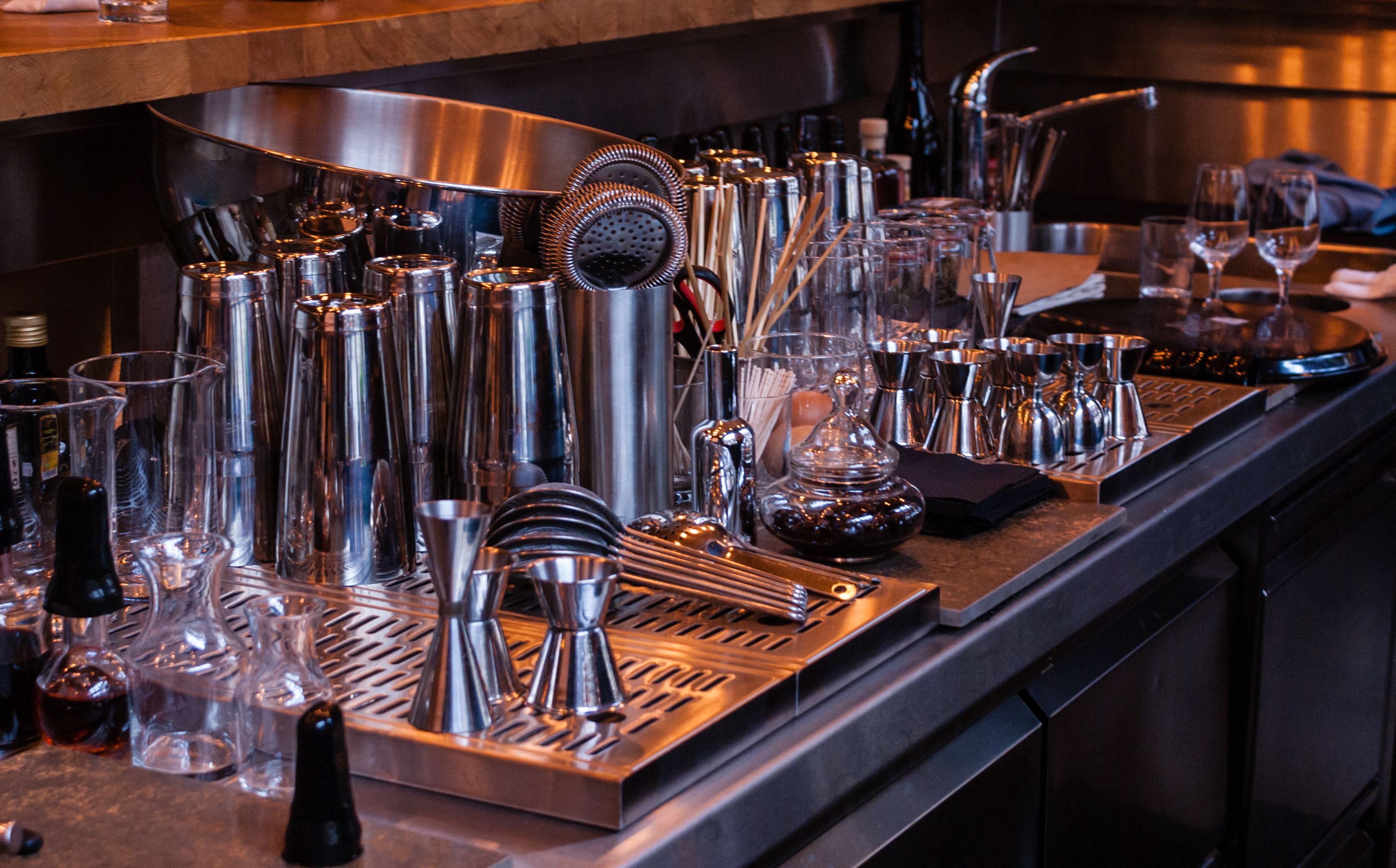 Cocktail-Shakers and other bar tools on steinless steel drip trays behind the counter at Velvet Bar, Berlin. Phtographed at Wiki Loves Cocktails 2017.